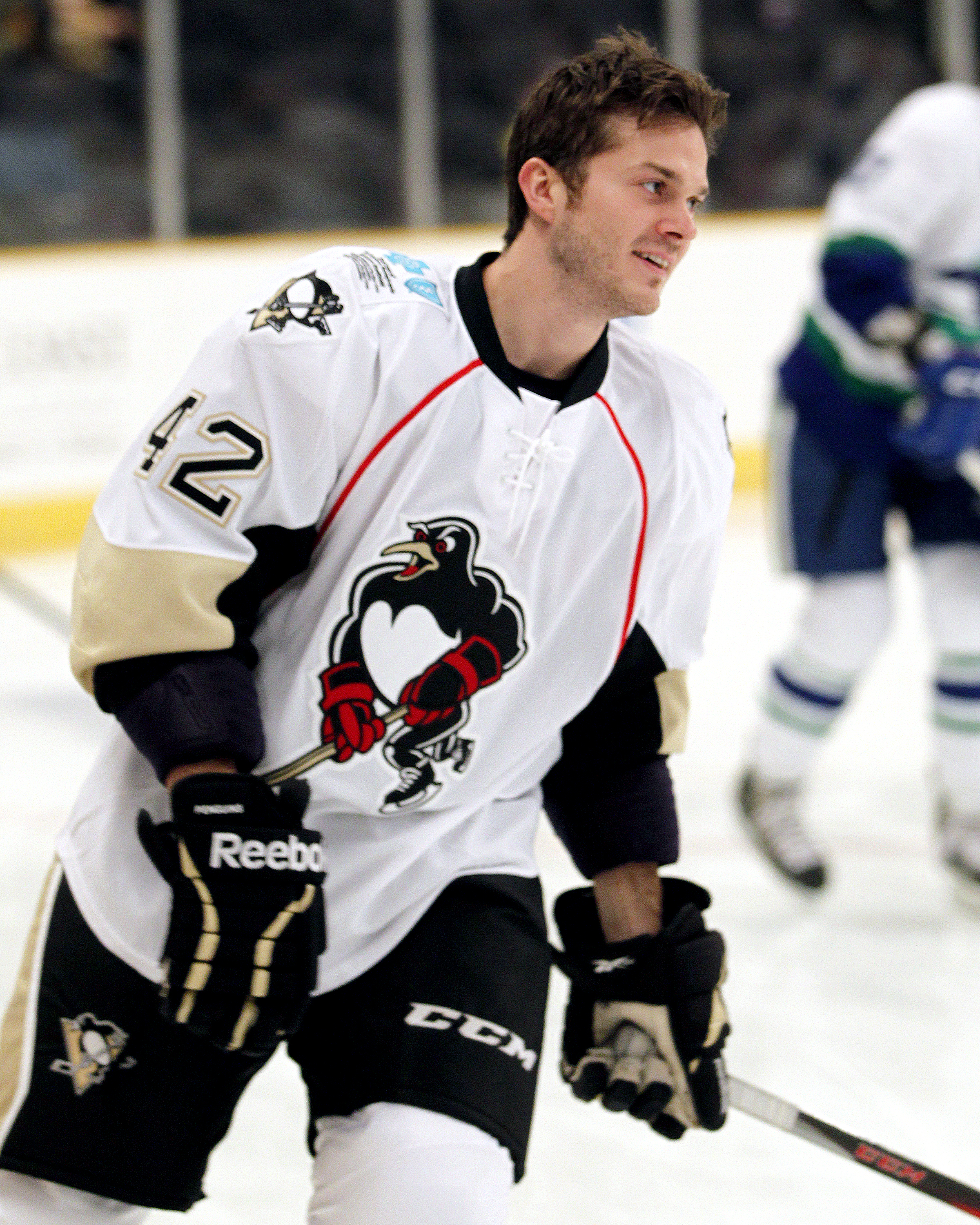 Kolarik American Hockey League (AHL). 2013 All-Star Skills Competition. Taken on January 27, 2013.